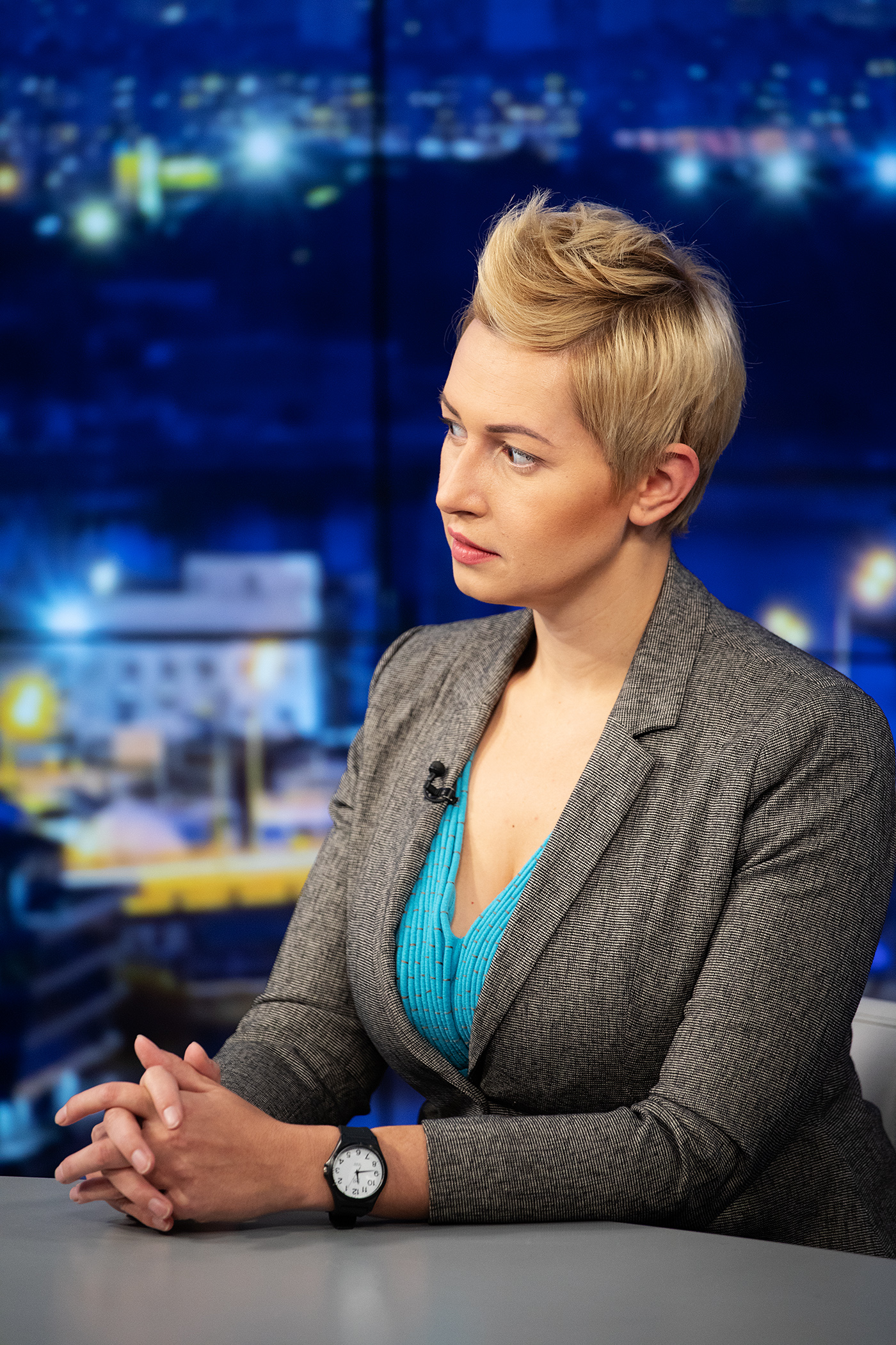 Yaroslava Kravchenko during filming of the "#@)₴?$0 with Michael Shchur" TV show.